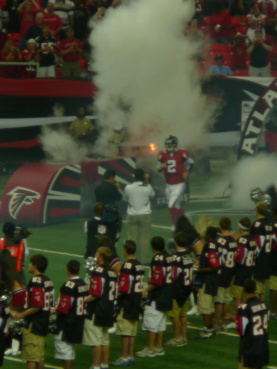 If used somewhere other than Wikipedia, Nelson, by name.